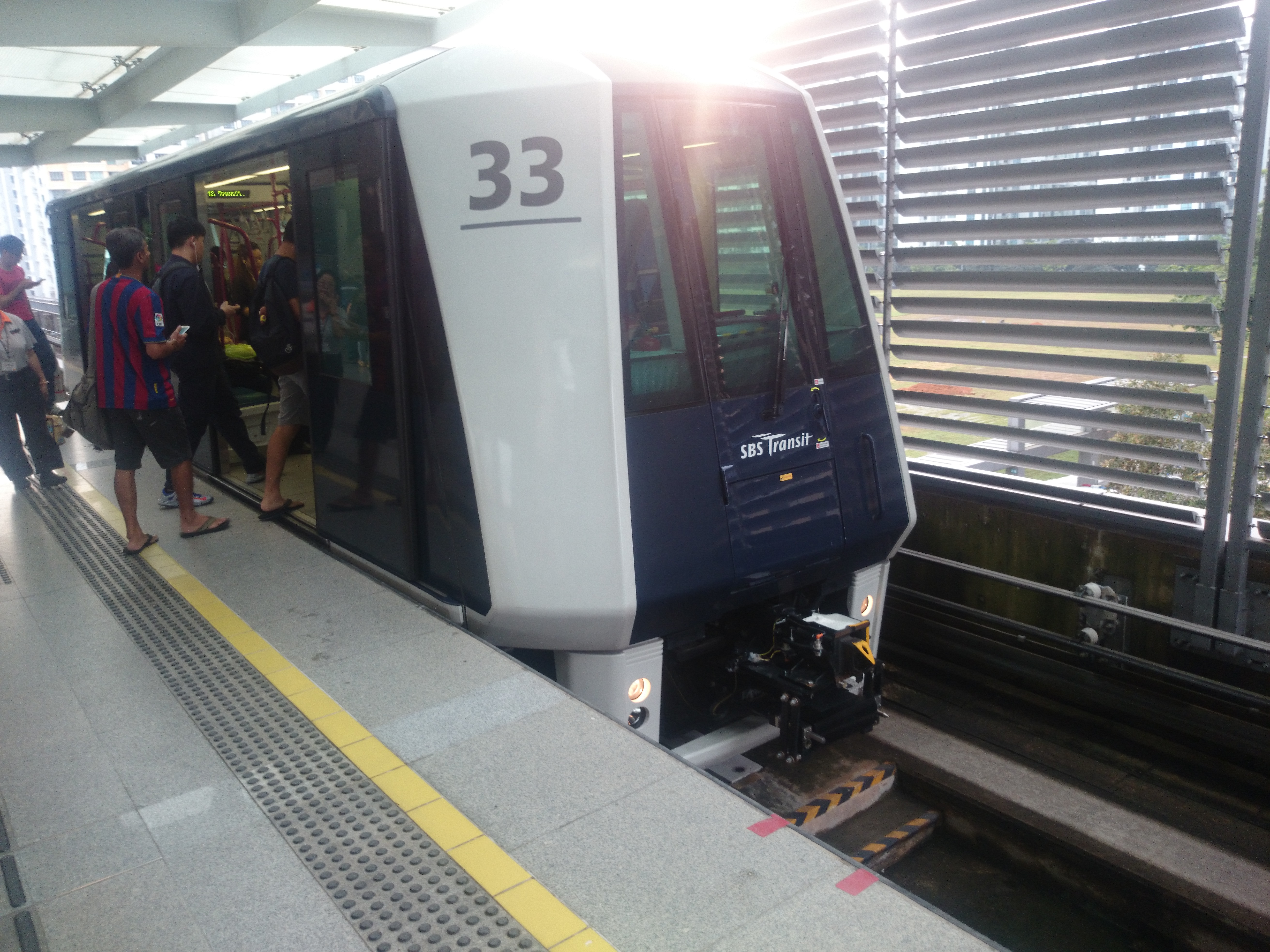 A Crystal Mover LRT train on boarding